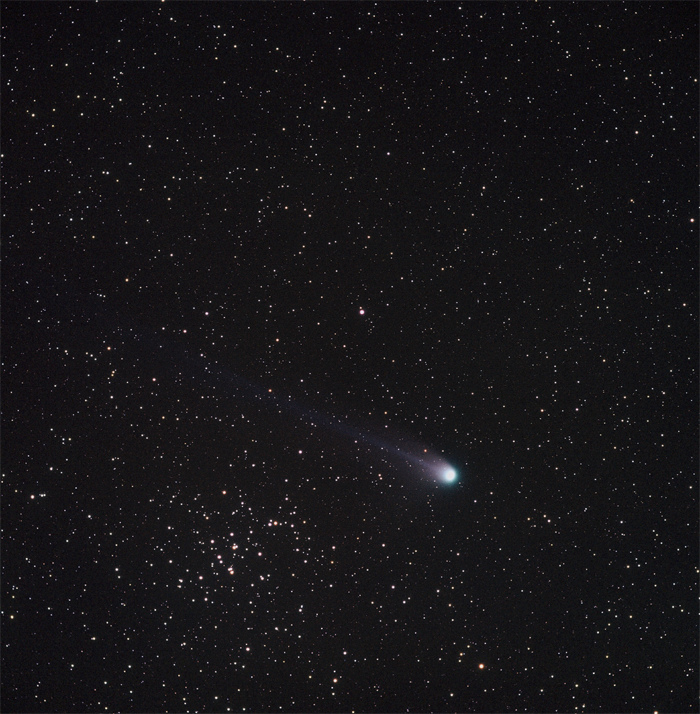 Photo of comet C/2001 Q4 (NEAT) next to Messier 44 (also called Praesepe).